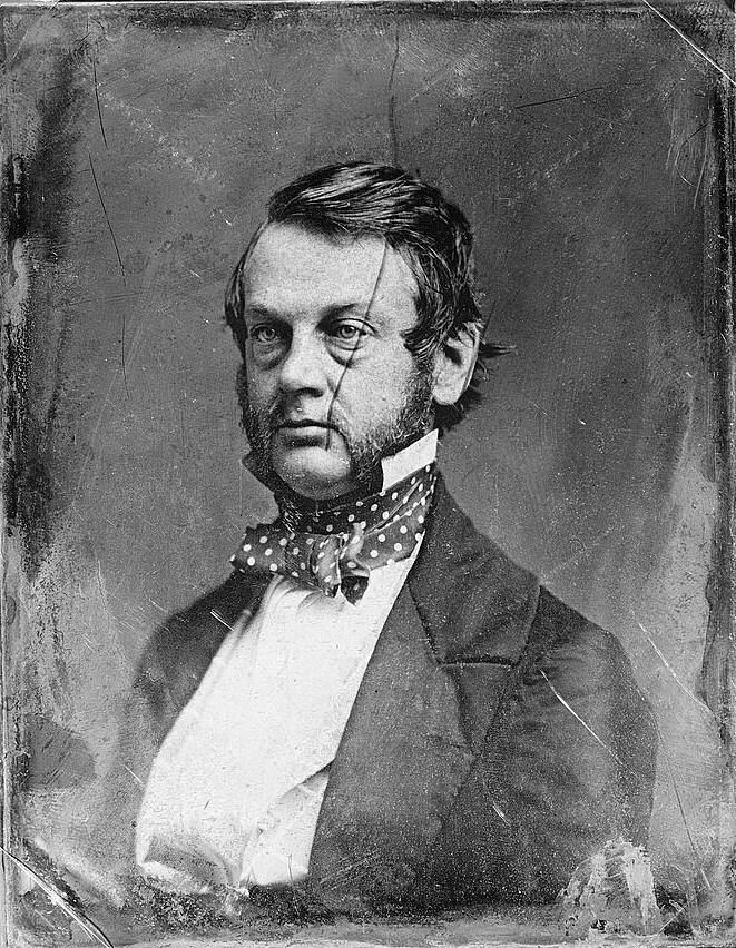 William Murray, Democratic Congressman from New York 1851–55